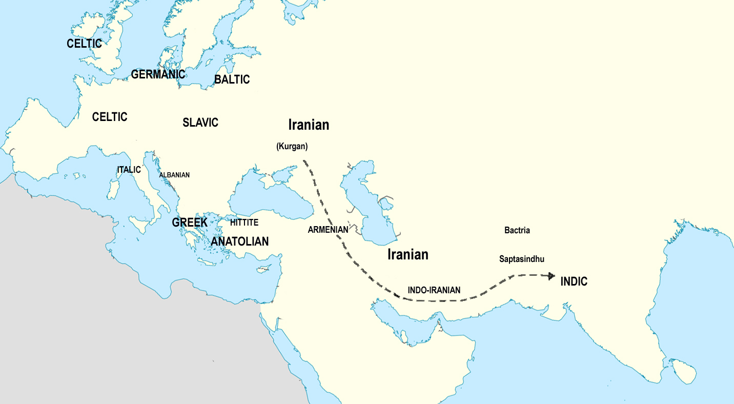 Indo-Iranian migrations according to Kazanas. Bron: Kazanas (2013), The Collapse of the AIT